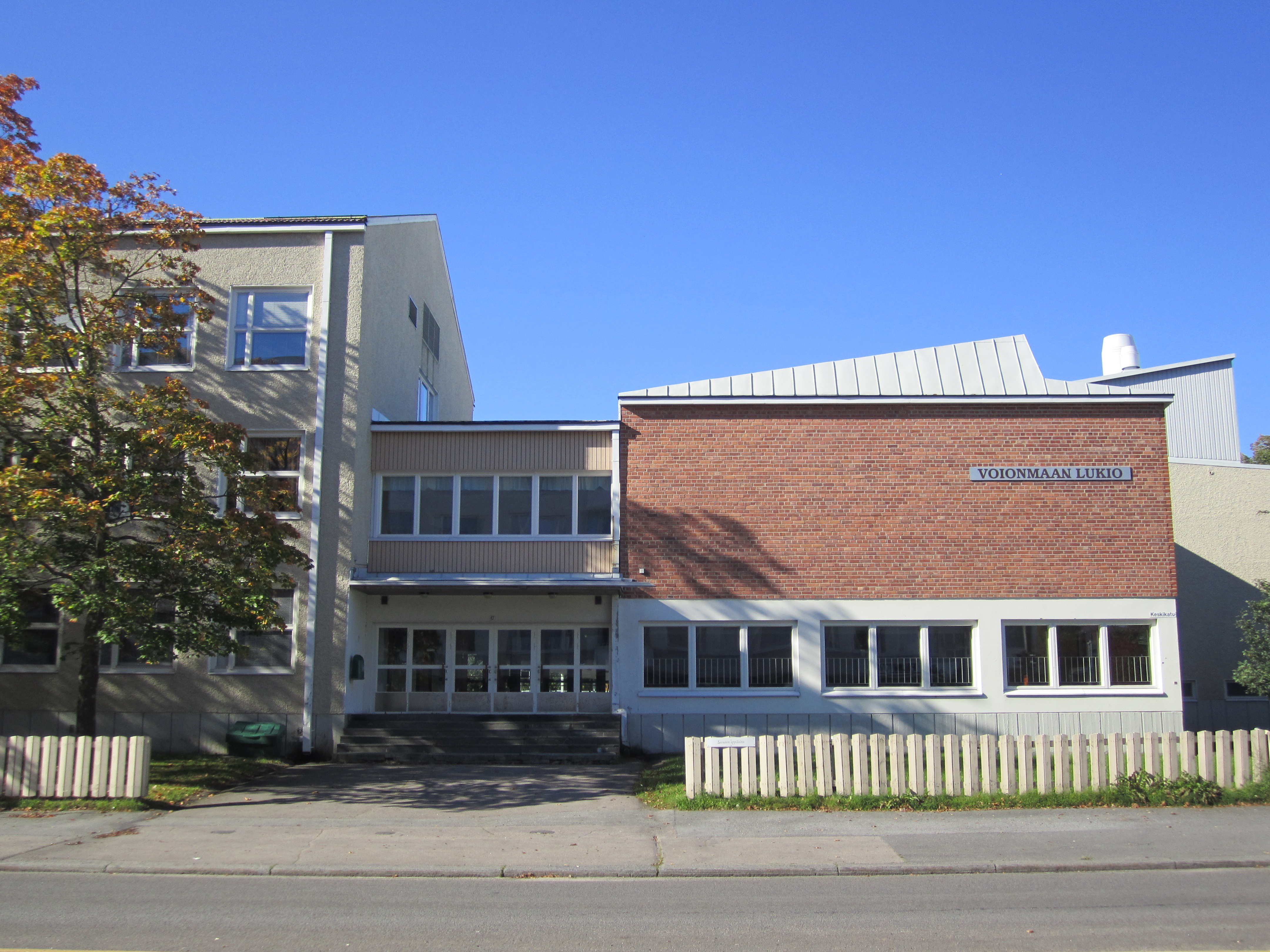 Voionmaa High School, Jyväskylä, Finland.